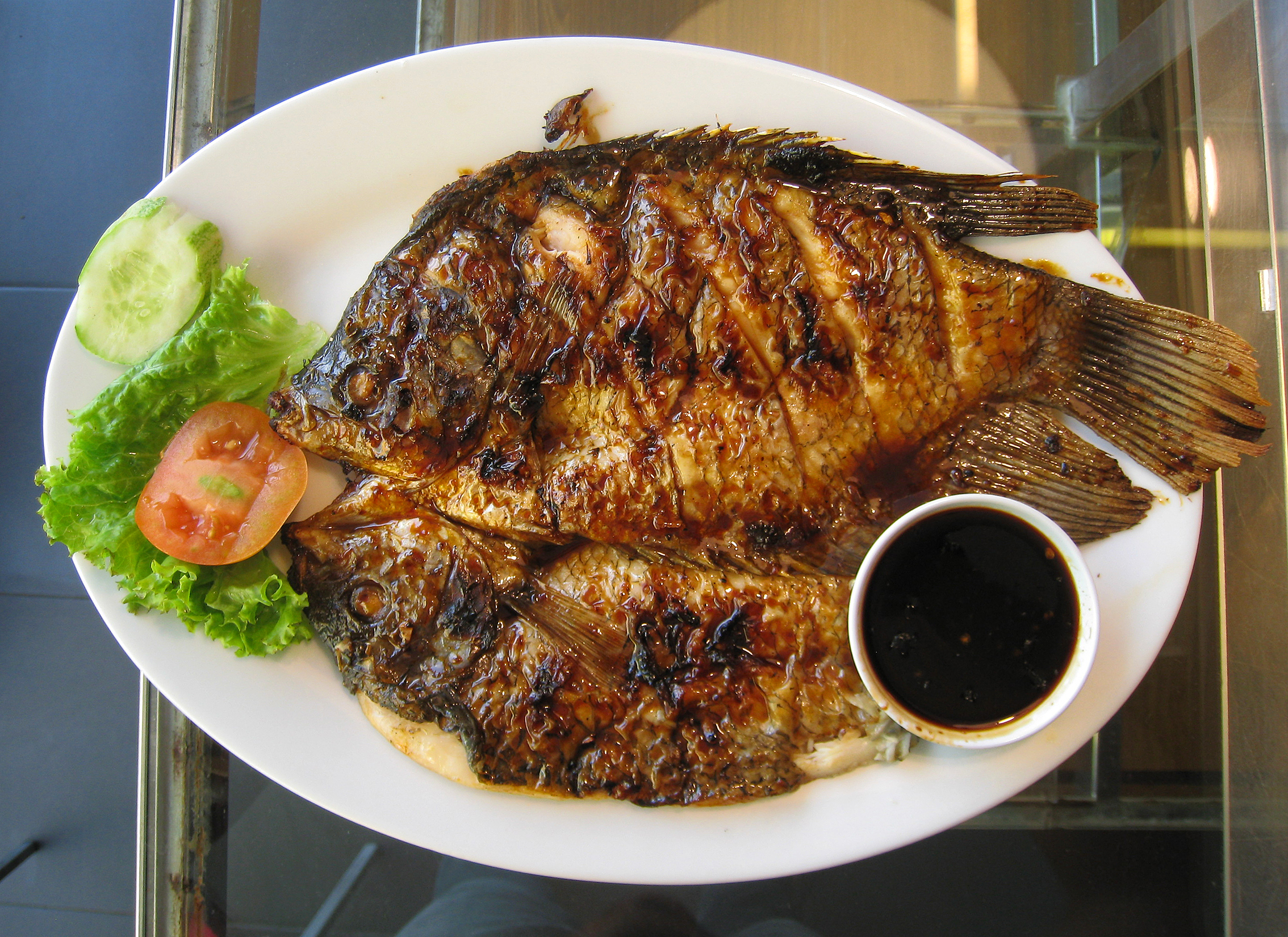 Gurame bakar kecap, barbecued gourami fish seasoned with sweet soy sauce. Popular Indonesian dish, served in D'Cost restaurant in Jakarta, Indonesia.